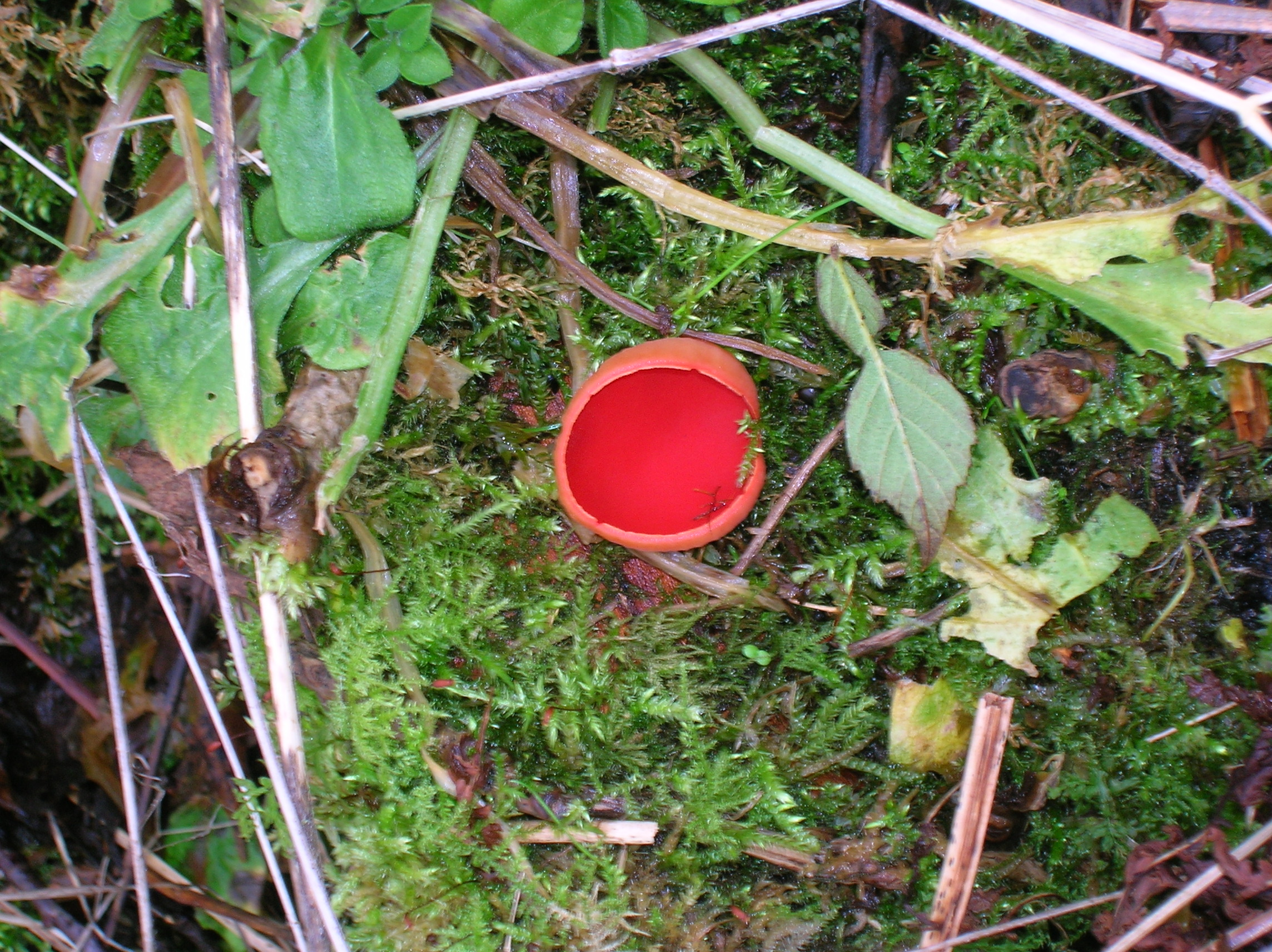 Scarlet Elf Cap fungus (Sarcoscypha coccinea) in Lawthorn wood, North Ayrshire, Scotland.